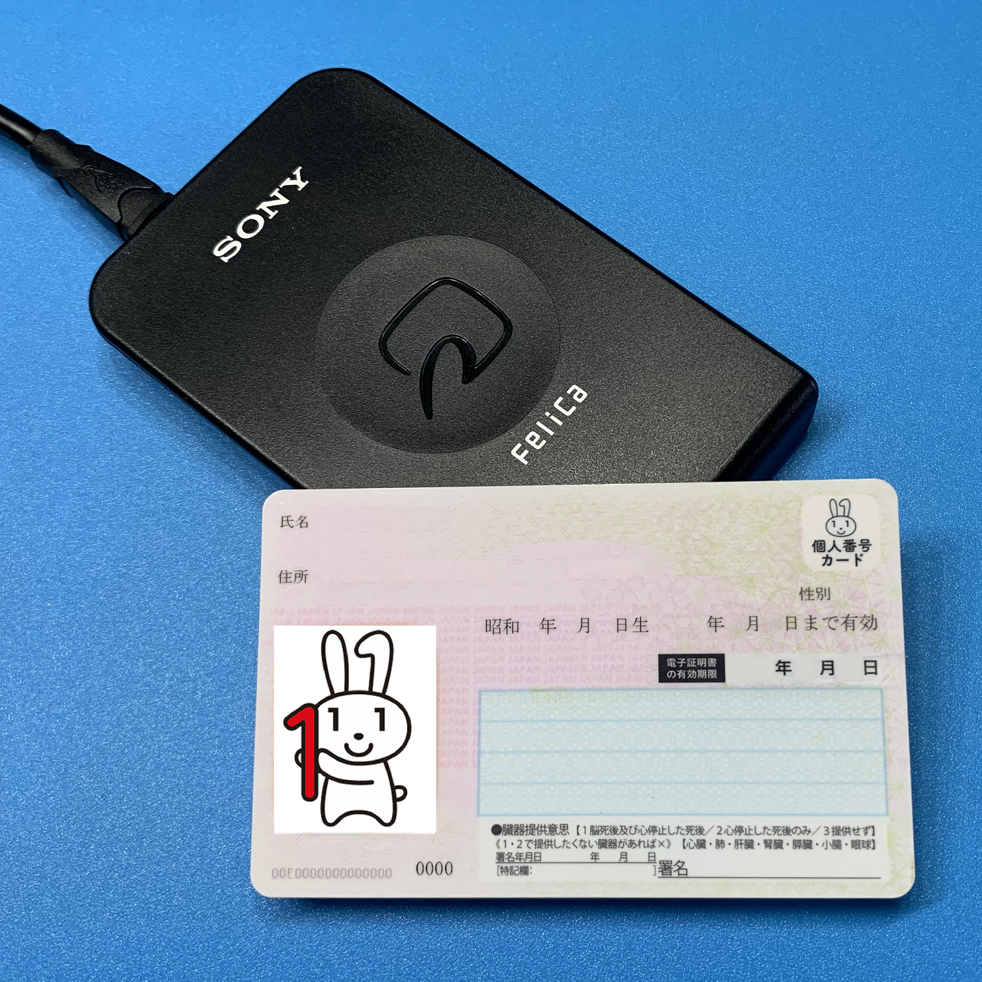 Contactless Ic Card Reader/Writer